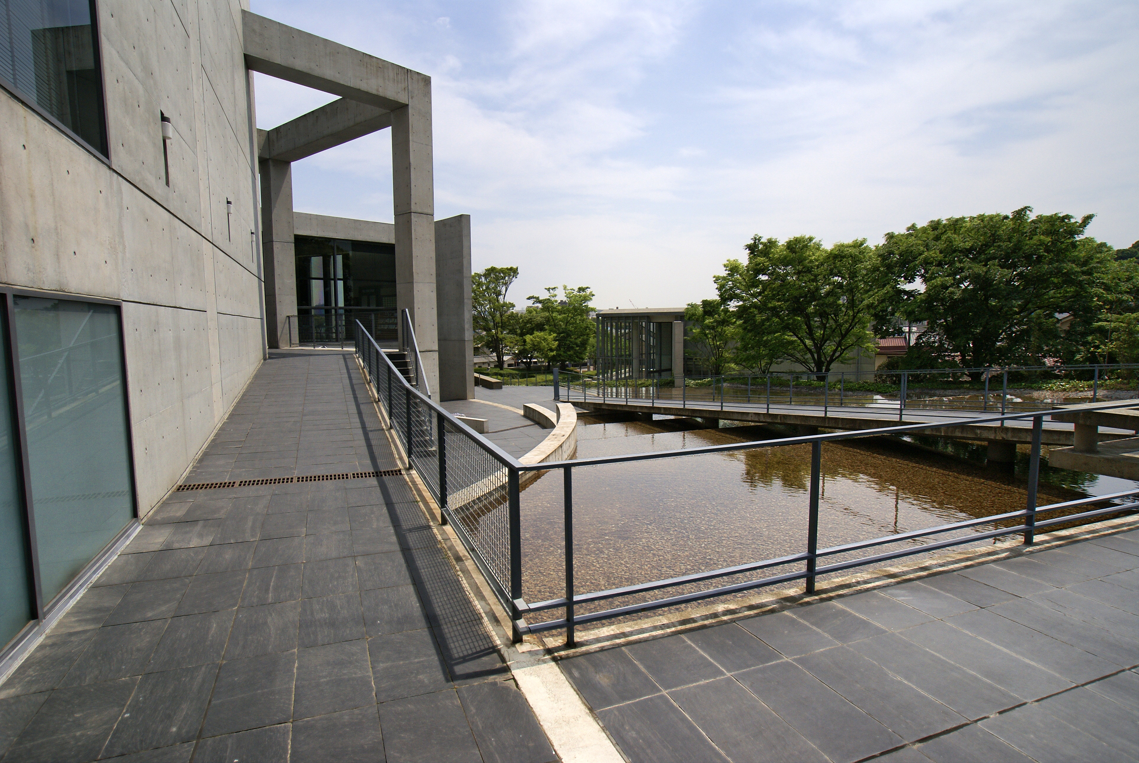 Himeji City Museum of Literature in Himeji, Hyogo prefecture, Japan